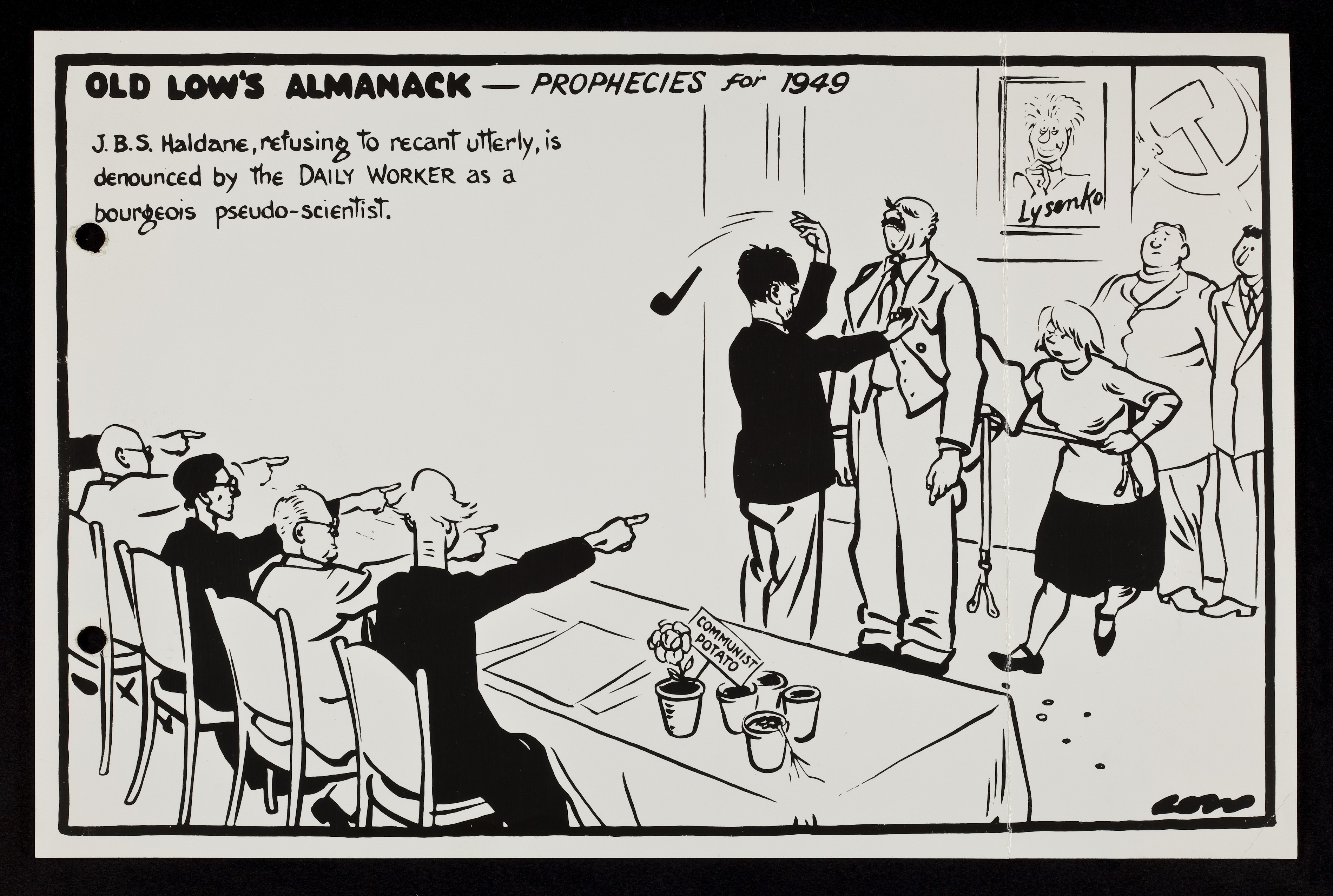 Haldane was one of the most colourful figures in 20th century genetics and was renouned as much for his political as by his scientific opinions - He introduced many to the fascination of science through his popular columns in the Daily Worker, among others - he became a Communist in the 1940's and never entirely repudiated the claims of Trofim Lysenko to have developed Lamarckian methods of plant breeding to which this cartoon refers. The cartoon, by Low, was sent to him by Professor Haddow of the Chester Beatty Cancer Research Institute in 1965. Digitised for CODEBREAKERS, MAKERS OF MODERN GENETICS Archives & Manuscripts